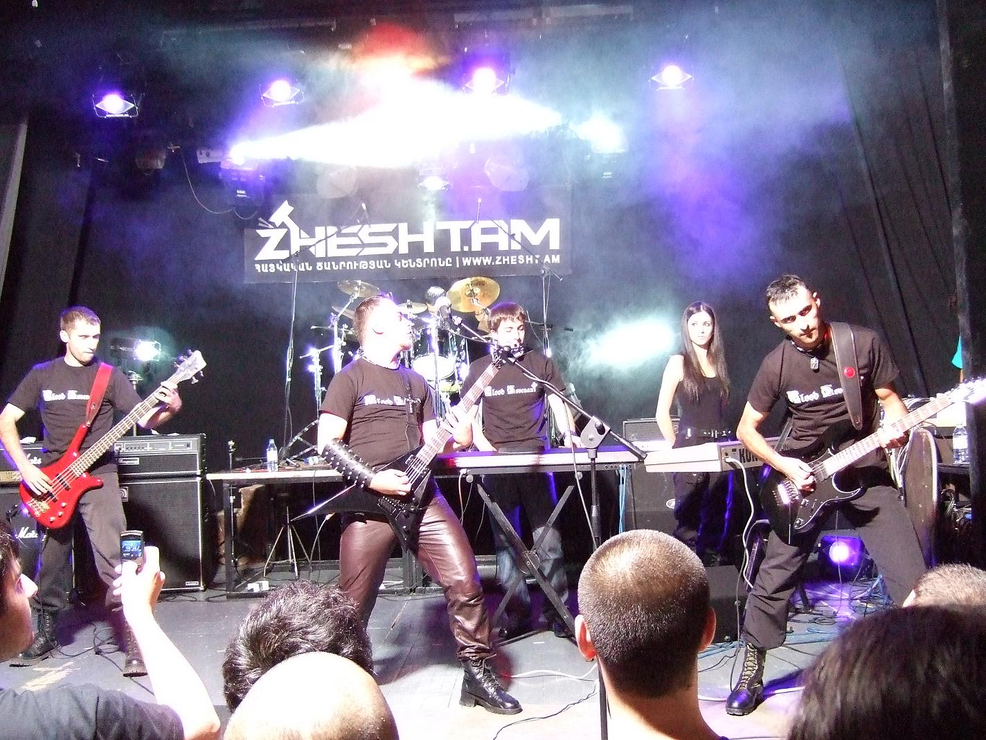 Blood Covenant, the symphonic black metal band, at the Highland Metal Festival at the Yerevan State Puppet Theater in Yerevan, Armenia.